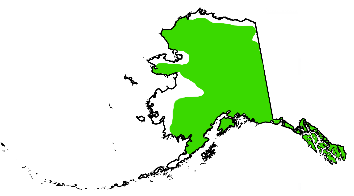 Range of Marmota caligata in Alaska